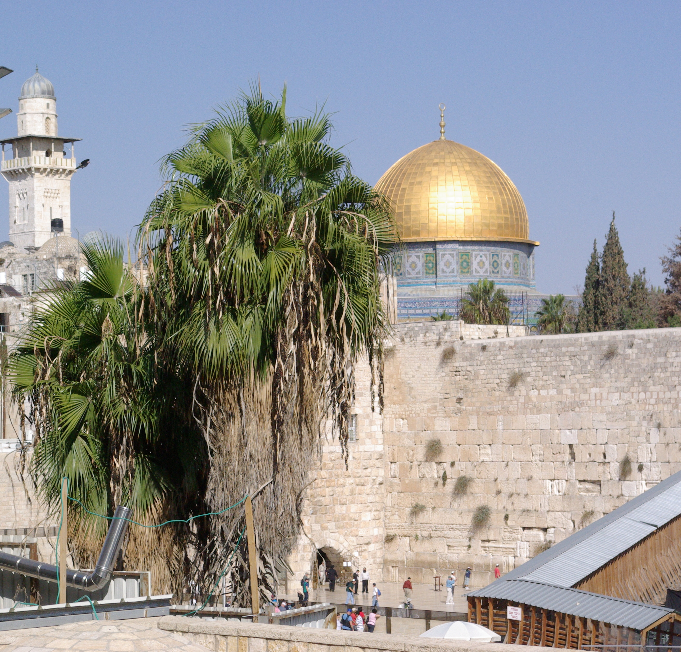 Jerusalem, Dome of the Rock and the Western Wall. these two palm trees are the only ones on the western wall plaza